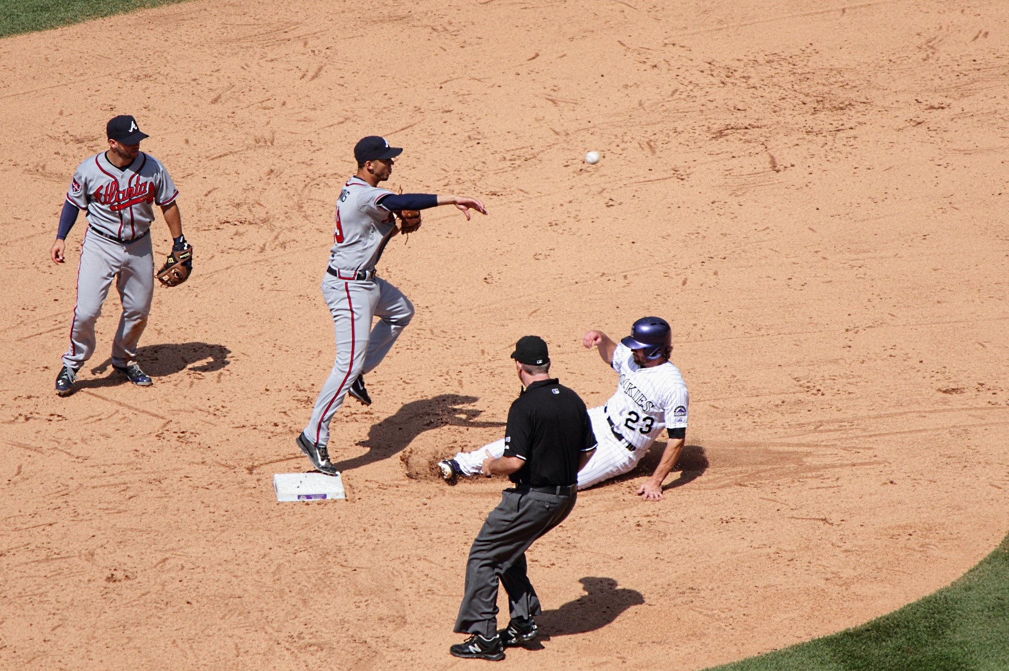 During a June 12, 2014 game at Coors Field, Andrelton Simmons turns a double play at second base